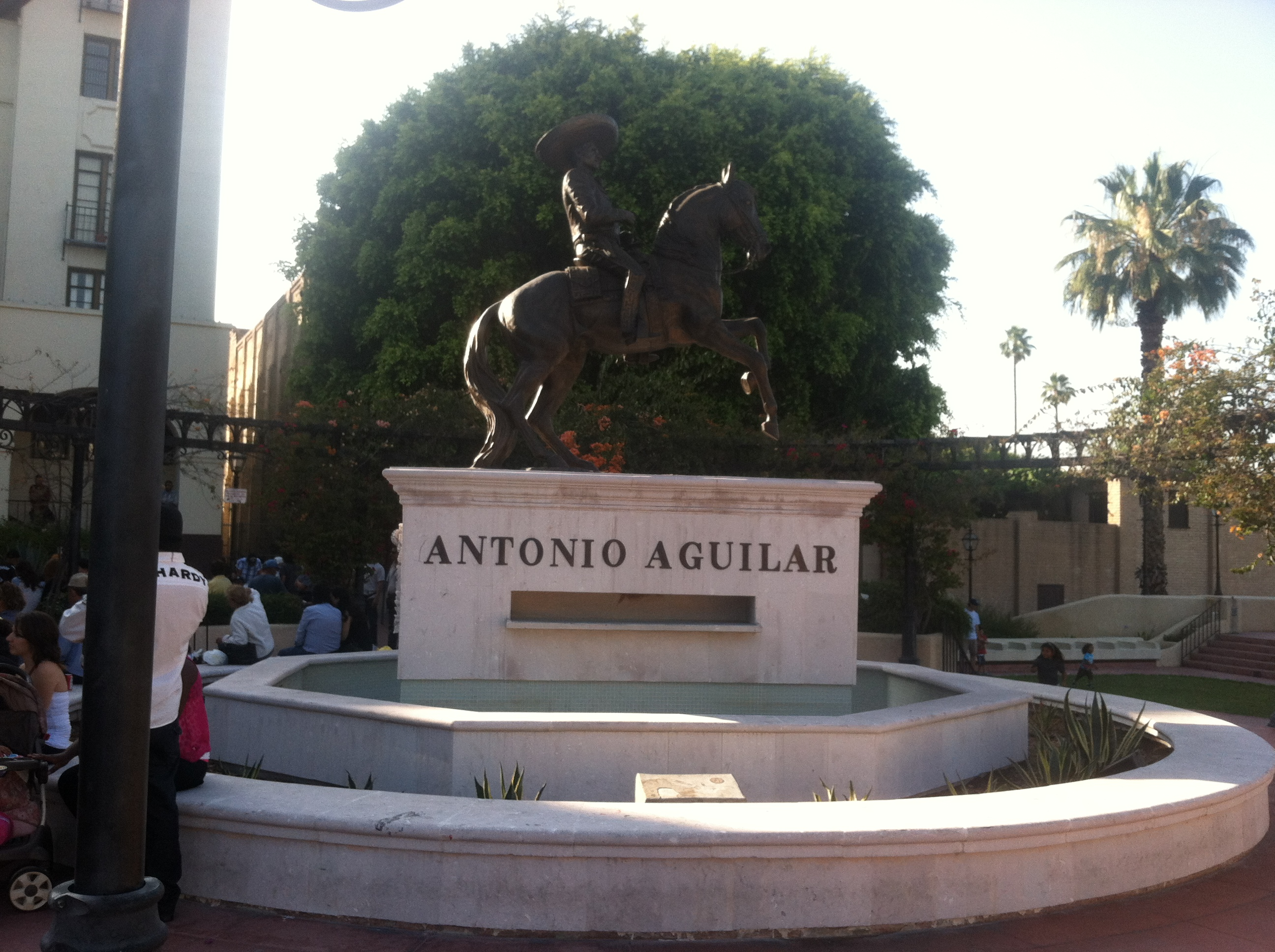 Antonio Aguilar Statue in Plazita Olvera, Los Angeles, California, USA.